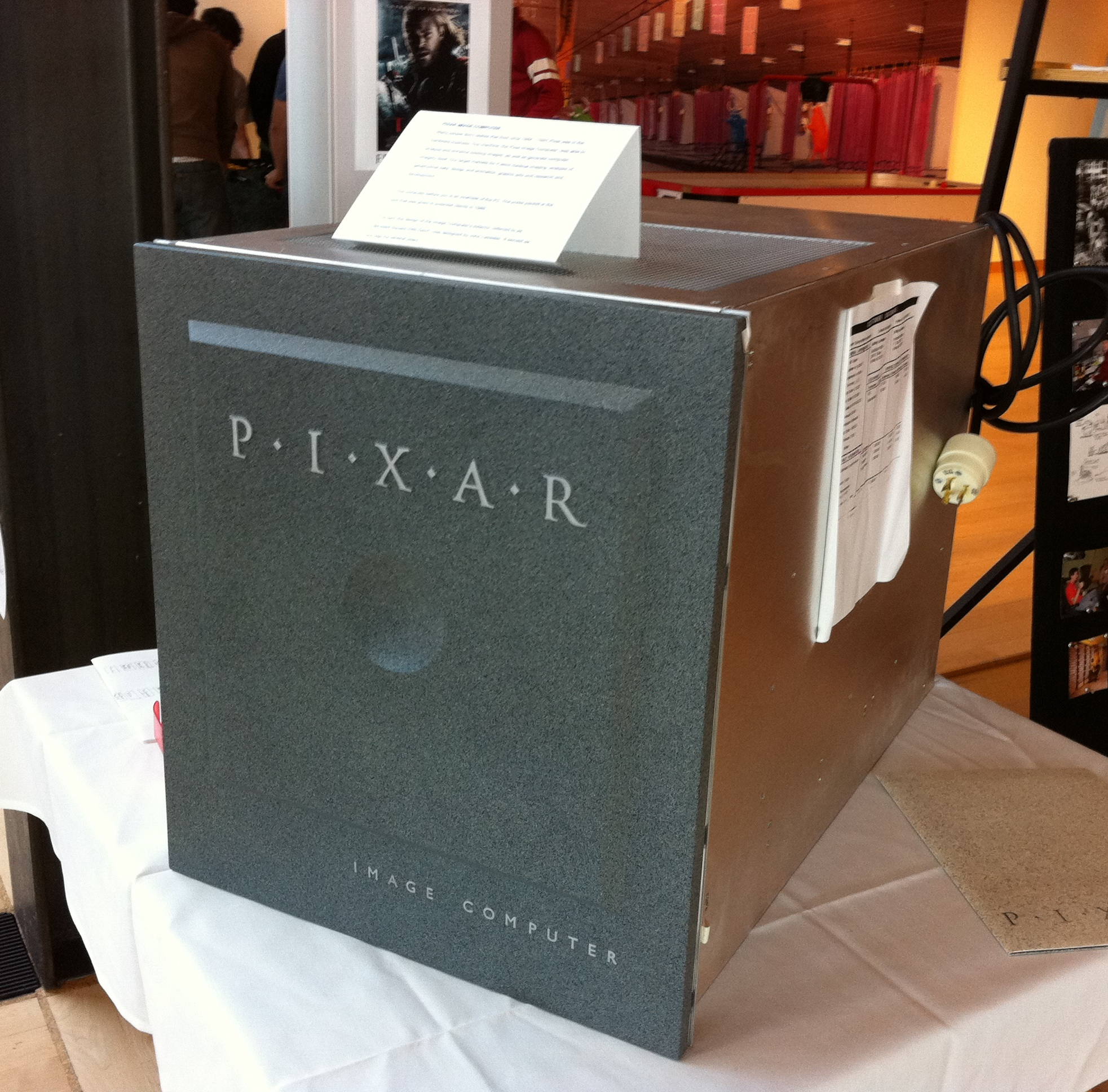 Pixar's own Pixar Image Computer (P-2).